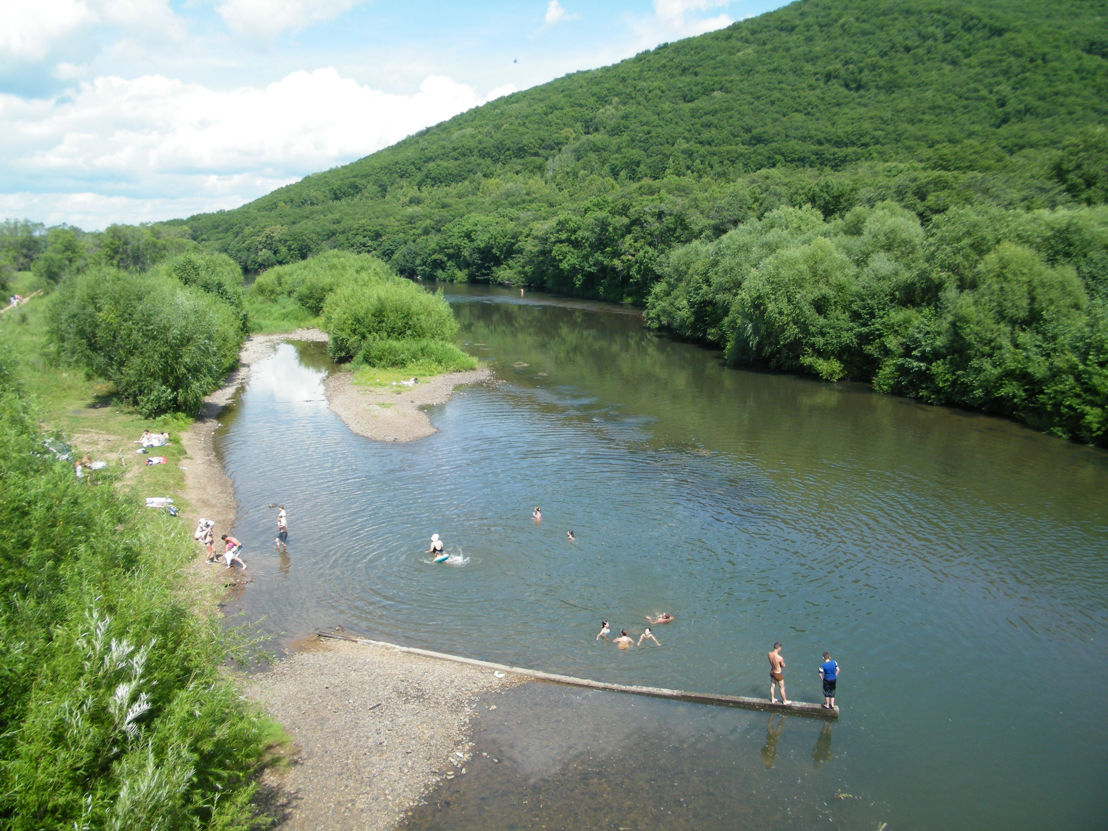 Река Арсеньевка у села Анучино, Приморье